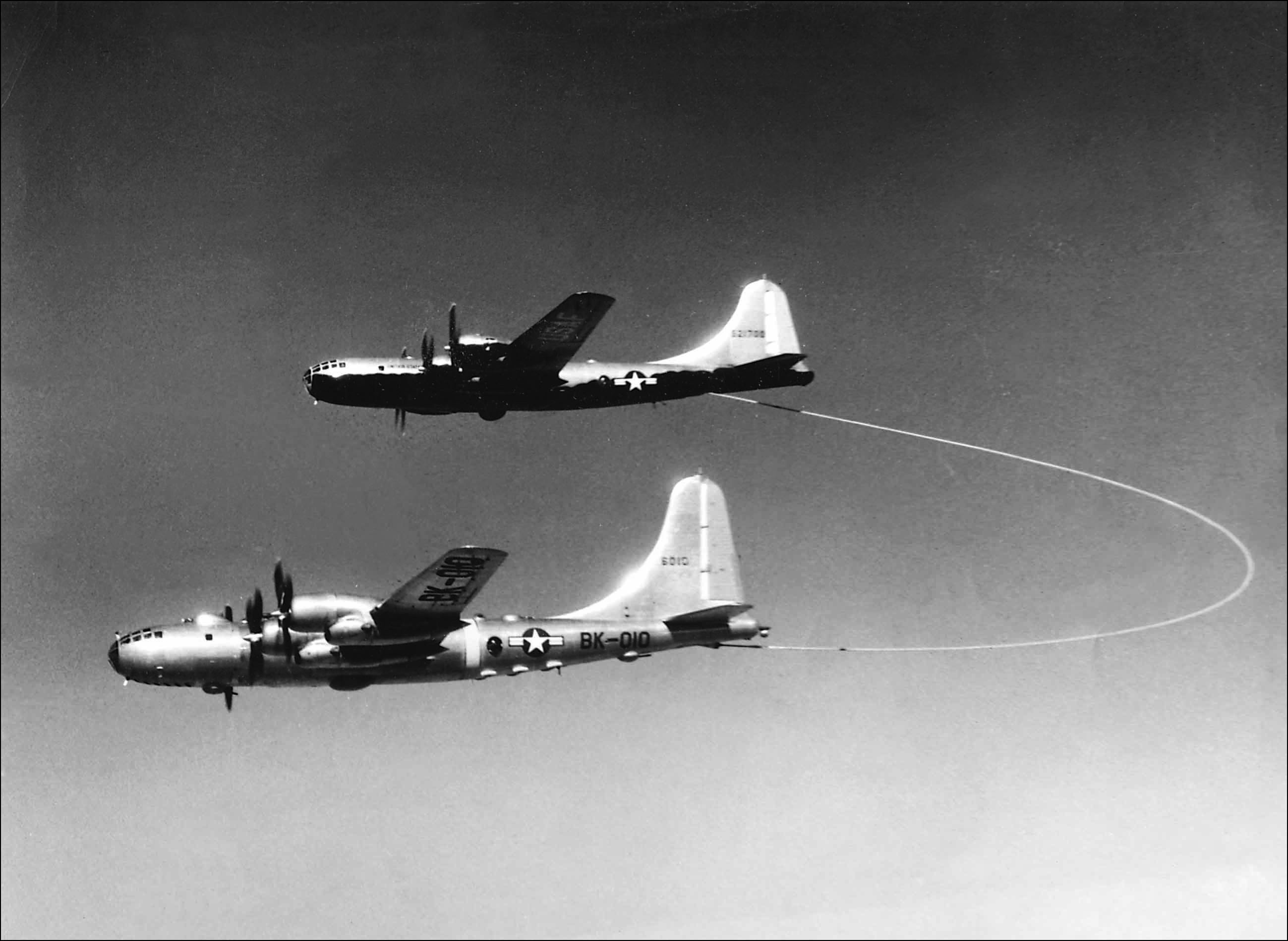 Lucky Lady II (46-0010) being refuelled by B-29M 45-21708